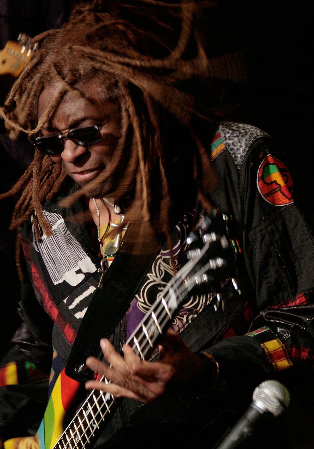 T. M. Stevens; concert with SociaLibrium at the jazz club Porgy & Bess in Vienna